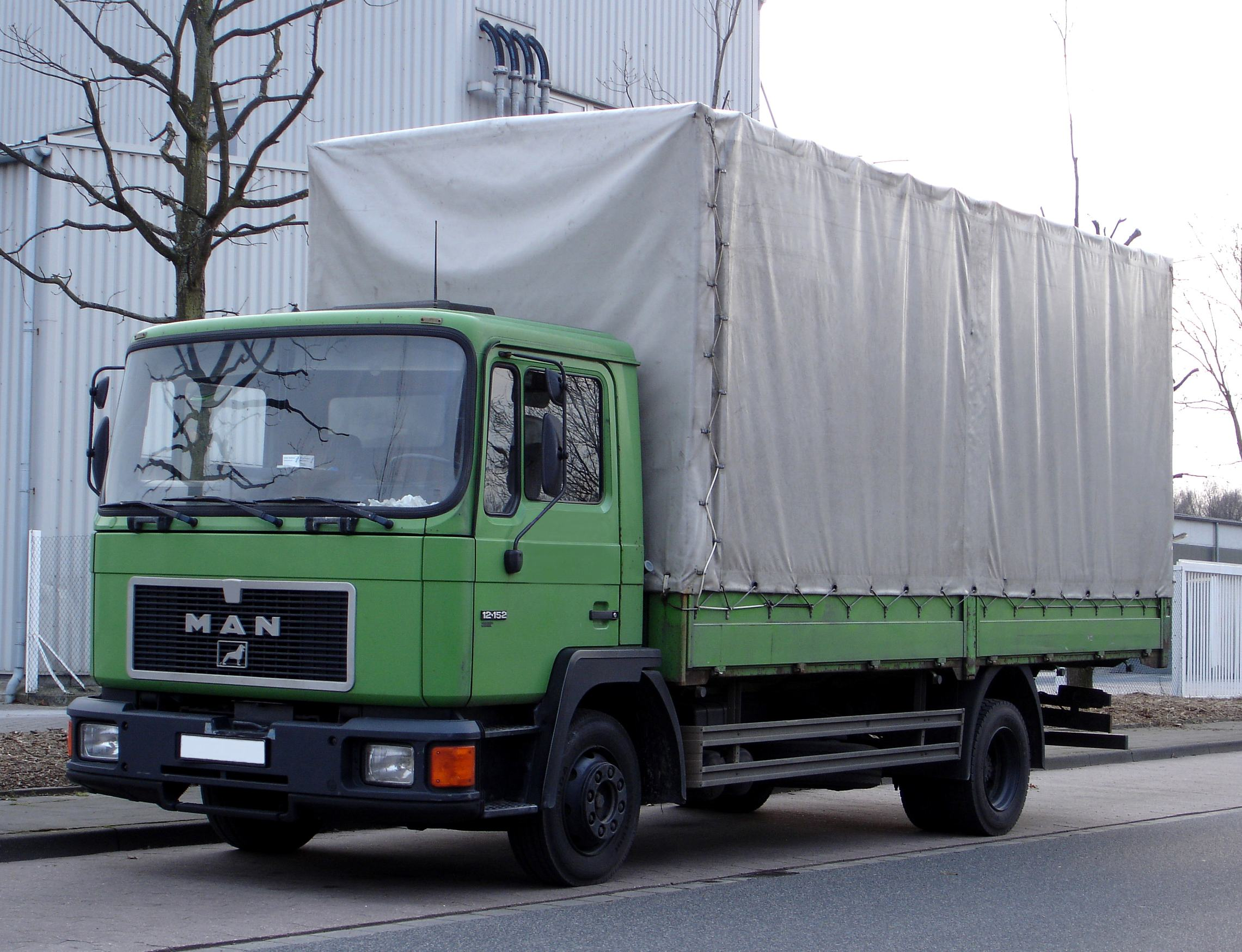 MAN M90 12.152 truck.